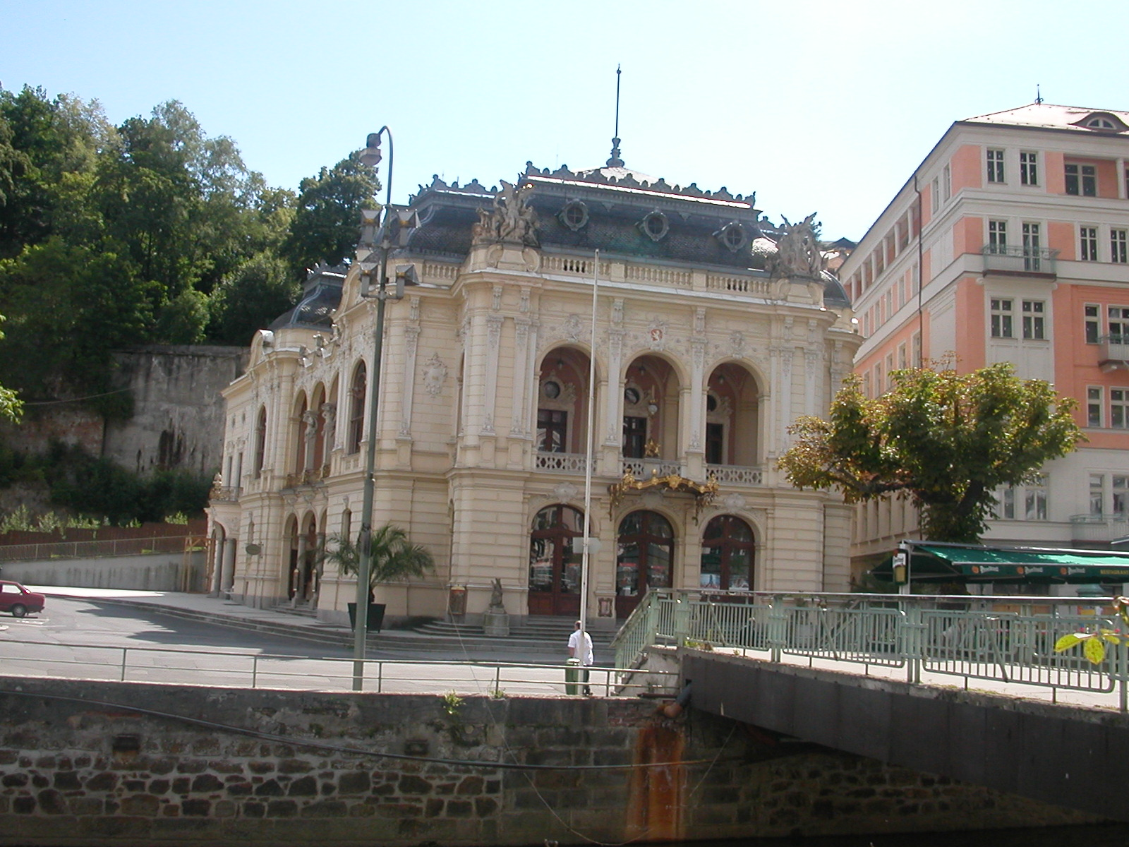 Theater in Karlovy Vary